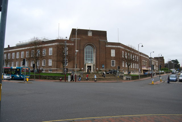 Tunbridge Wells Town Hall A 1960's utilitarian building.